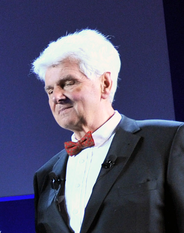 Günter Blobel